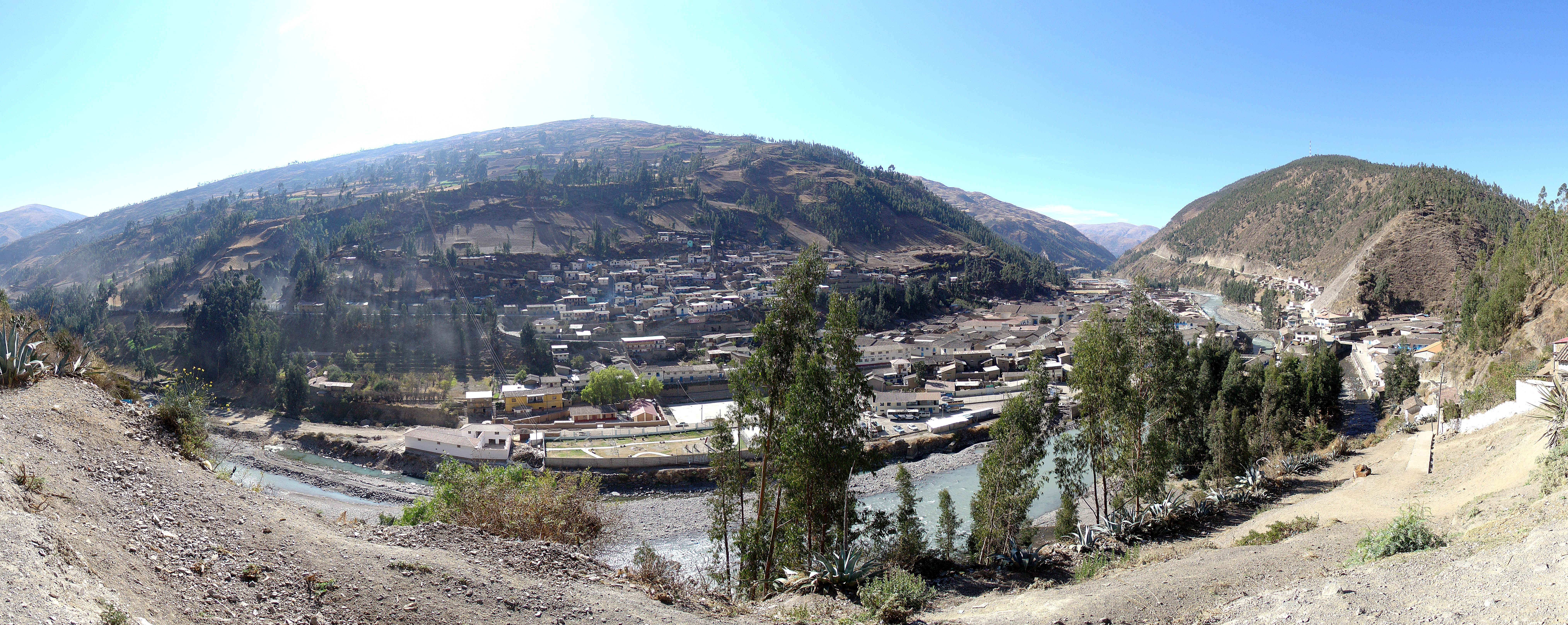 Please, have this description accessible to all by translating it in different languages.